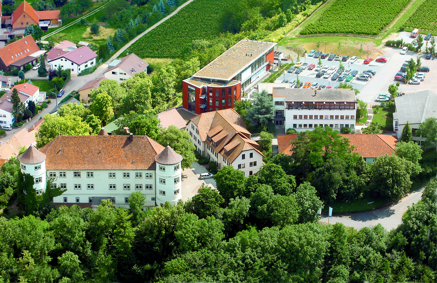 Hohenstein Institute in Boennigheim (Germany)